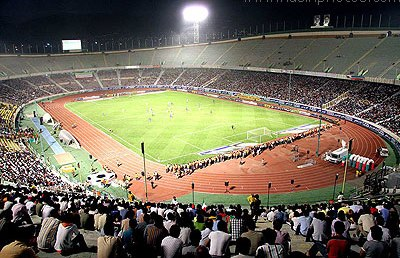 Azadi Stadium, Iran-Bosnia match photo: Mansour Nasiri